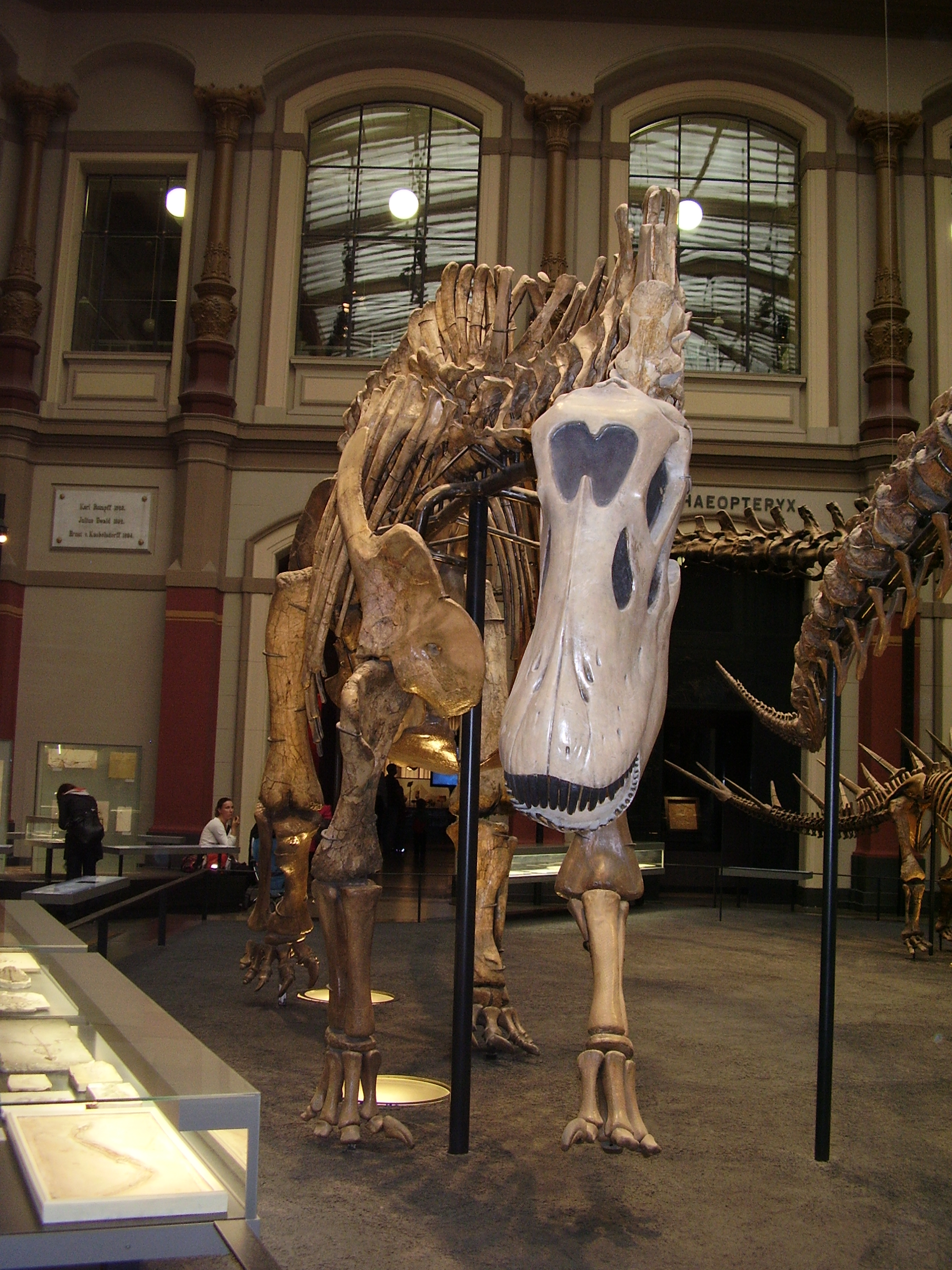 Skeleton of Late Jurassic sauropod Dicraeosaurus.